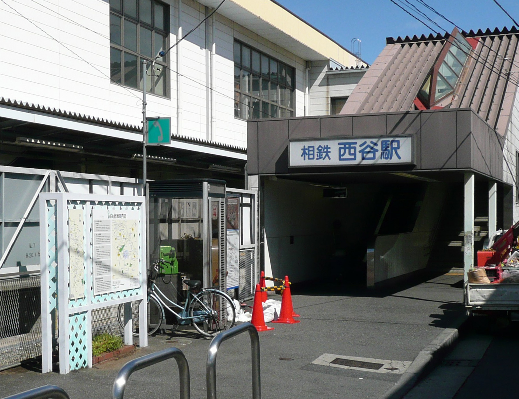 The south entrance to Nishiya Station on the Sagami Railway Main Line in Yokohama, Kanagawa Prefecture, Japan 西谷駅南口